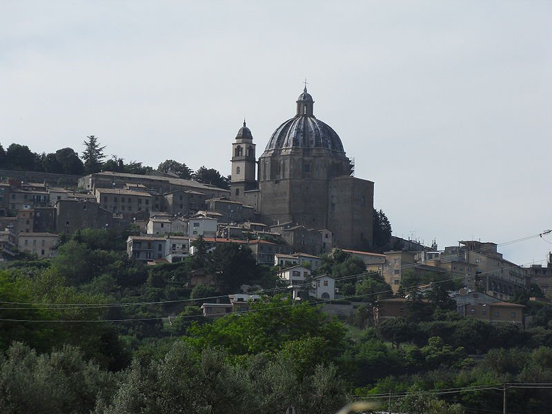 Montefiascone: church of Saint Margaret